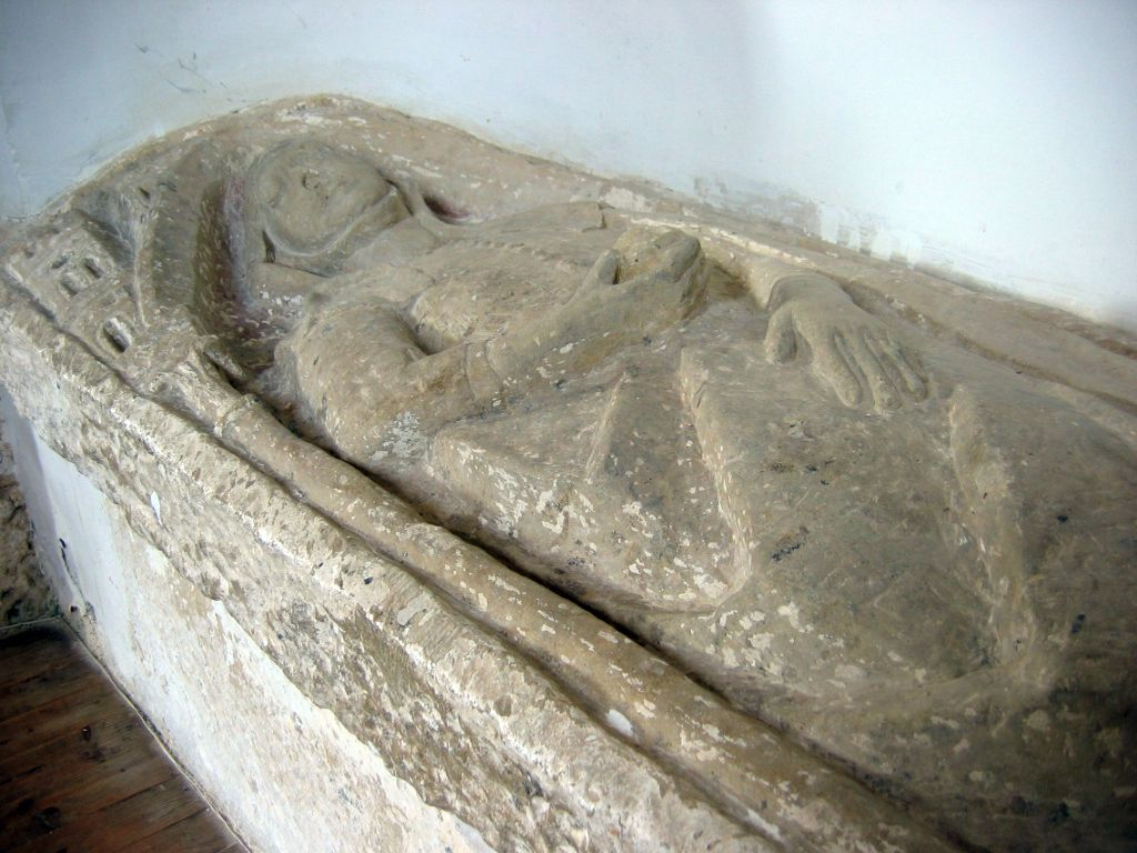 Grave of one of the Muño de Saldaña relatives, founder of the Church of San Pelayo in Arenillas de San Pelayo (Palencia, Castile and León) . It is splendid other than monastery "Dotado in 1132 by relatives of Muño Saldaña, which made him free in 1159 and spent in 1168 to the premostratenses of Retuerta". This Tomb lies in the right apse of the Church, on one side of the presbytery of the central altar and two niches of half a point along with the founder of the monastery, who presumably would be her husband. The sarcophagus is decorated in his deck with sculpture lying in its owner. Her Gospel under a pointed arch torreado abroad and with Apple in the right hand side. He, with head on pillow, attitude of desenvainar sword, cross-legs, spurs and his dog to the feet.